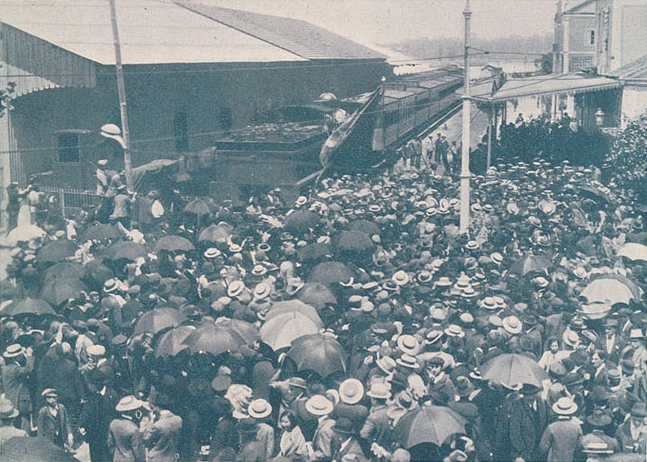 Arrival of politician António José de Almeida to the Coimbra central station, in Portugal, for a comitee of the Republican Evolucionist Party. This image was published on the Ilustração Portuguesa magazine No. 438 (II Series), of the 13rd July 1914, and scanned by the Hemeroteca Municipal de Lisboa.